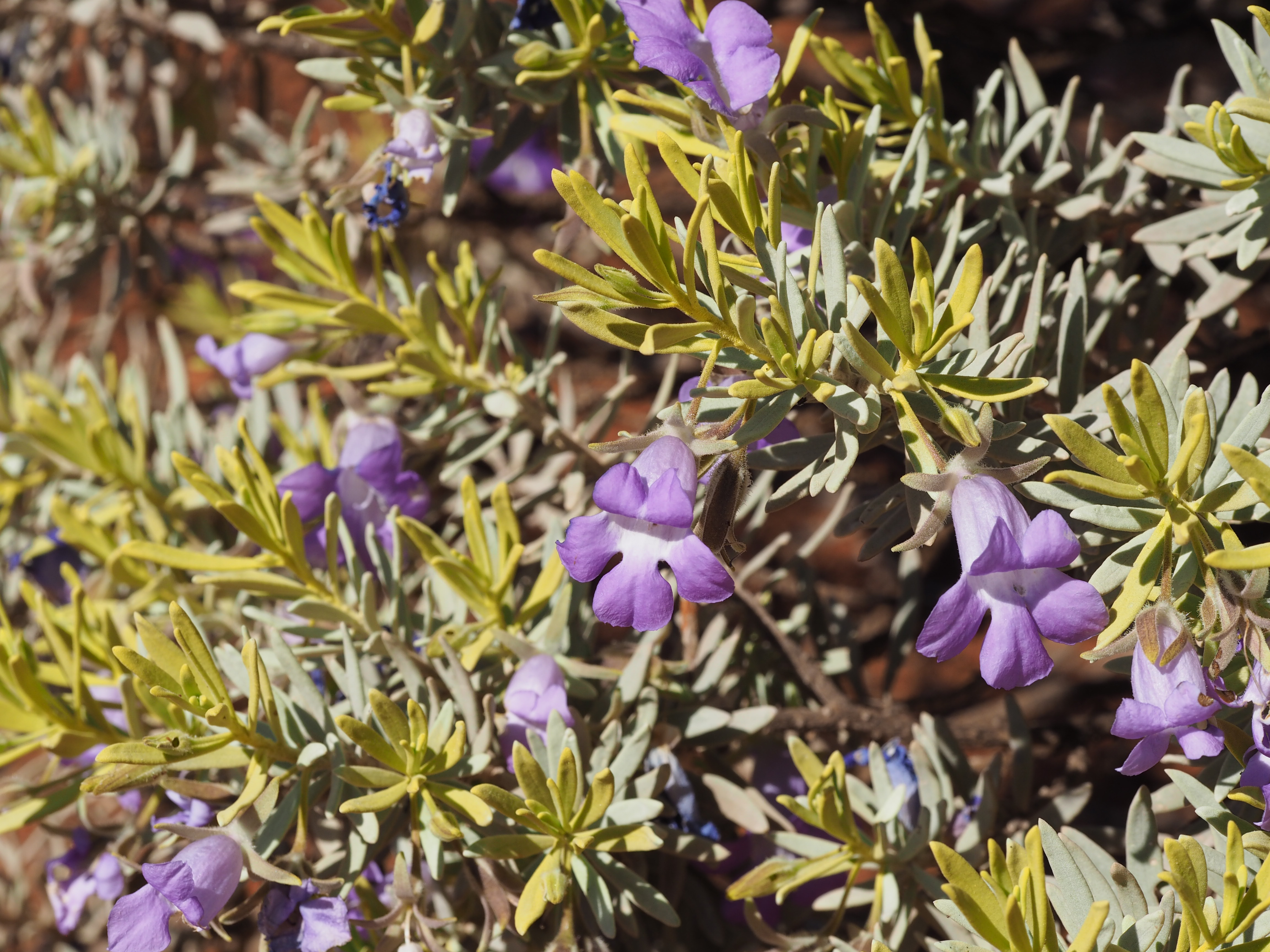 Eremophila citrina growing about 94 km south of Newman